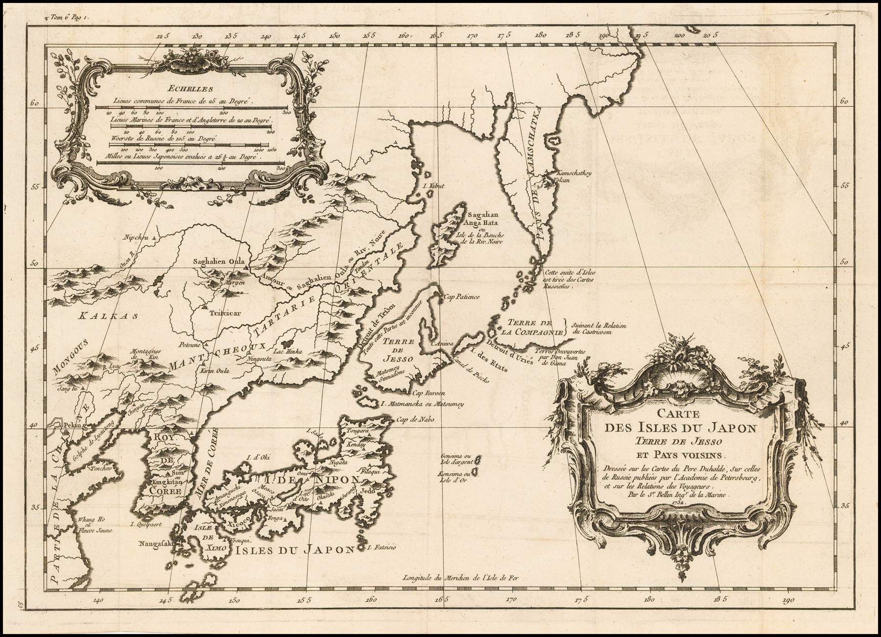 Jacques-Nicolas Bellin (1703-1772) was among the most important mapmakers of the eighteenth century. In 1721, at age 18, he was appointed hydrographer (chief cartographer) to the French Navy. In August 1741, he became the first Ingénieur de la Marine of the Depot des cartes et plans de la Marine (the French Hydrographic Office) and was named Official Hydrographer of the French King. During his term as Official Hydrographer, the Depot was the single most active center for the production of sea charts and maps, including a large folio format sea-chart of France, the Neptune Francois. He also produced a number of sea-atlases of the world, e.g., the Atlas Maritime and the Hydrographie Francaise. These gained fame, distinction, and respect all over Europe and were republished throughout the 18th and even in the succeeding century. Bellin also came out with smaller format maps such as the 1764 Petit Atlas Maritime, containing 580 finely detailed charts. He also contributed many of the maps for Bellin and contributed a number of maps to the 15-volume Histoire Generale des Voyages of Antoine François Prévost or simply known l'Abbe Prevost. Bellin set a very high standard of workmanship and accuracy, thus gaining for France a leading role in European cartography and geography. Many of his maps were copied by other mapmakers of Europe.